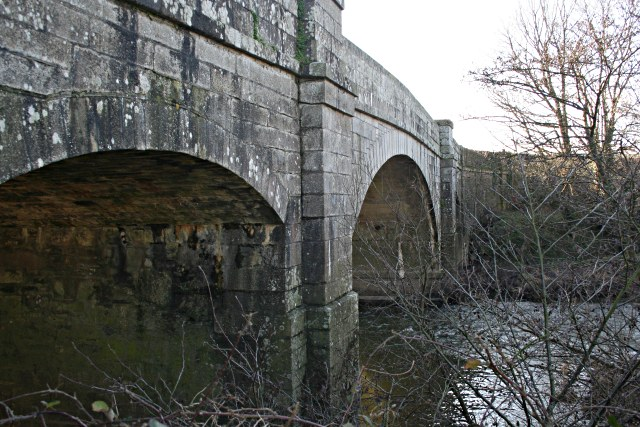 Polson Bridge This place has been a bridging point over the River Tamar for many years. There used to be a six arched medieval bridge but that was torn down and replaced in 1835 by a new bridge with two stone side arches and an iron central span. Sometime later the ironwork was dismantled and replaced with a large stone central span